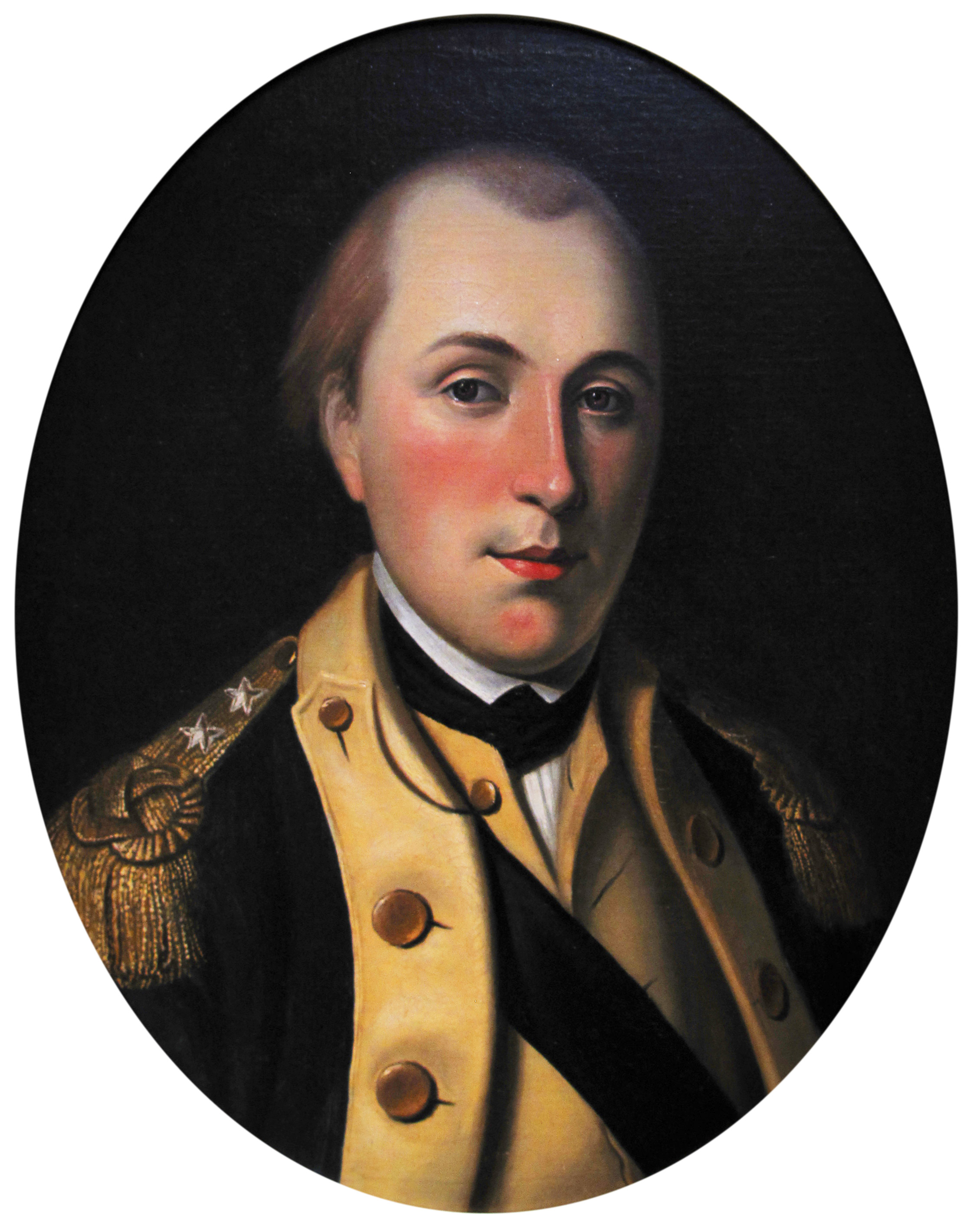 Lafayette in uniform of an American major general